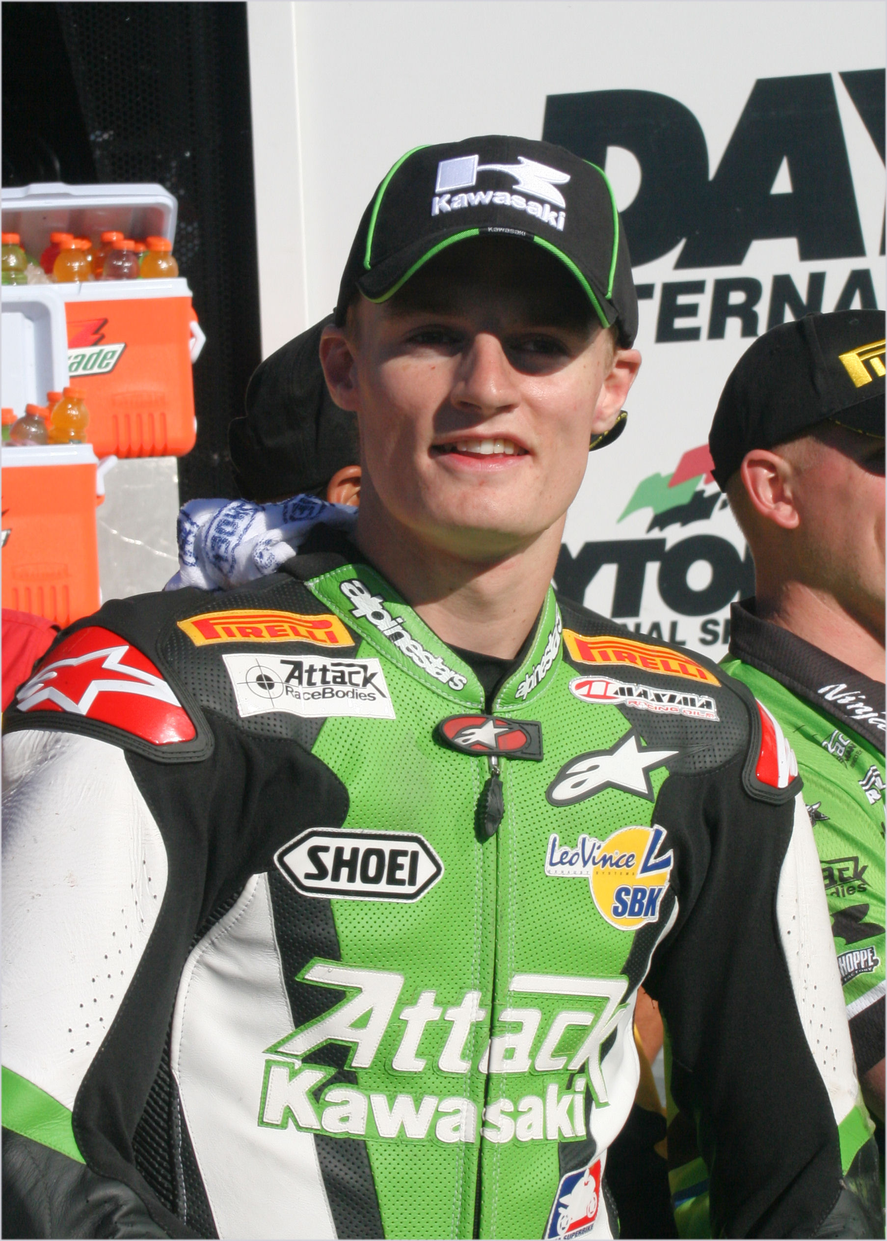 Chaz Davies, British motorcycle racer, at the 2008 Daytona 200